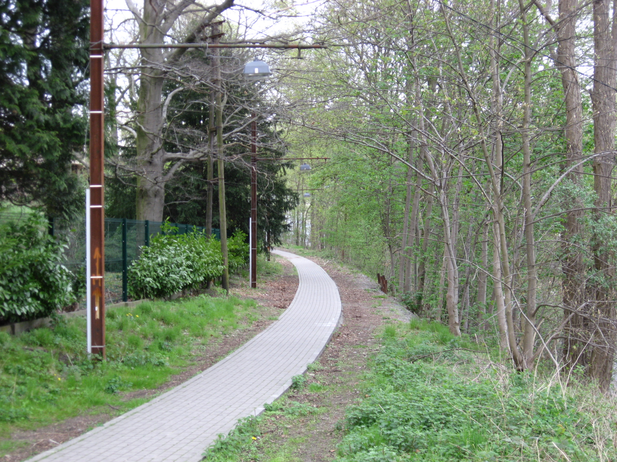 Former vicinal railway line 80 in Morlanwelz converted into a footpath to the railway station. The overhead masts are reused for lighting.